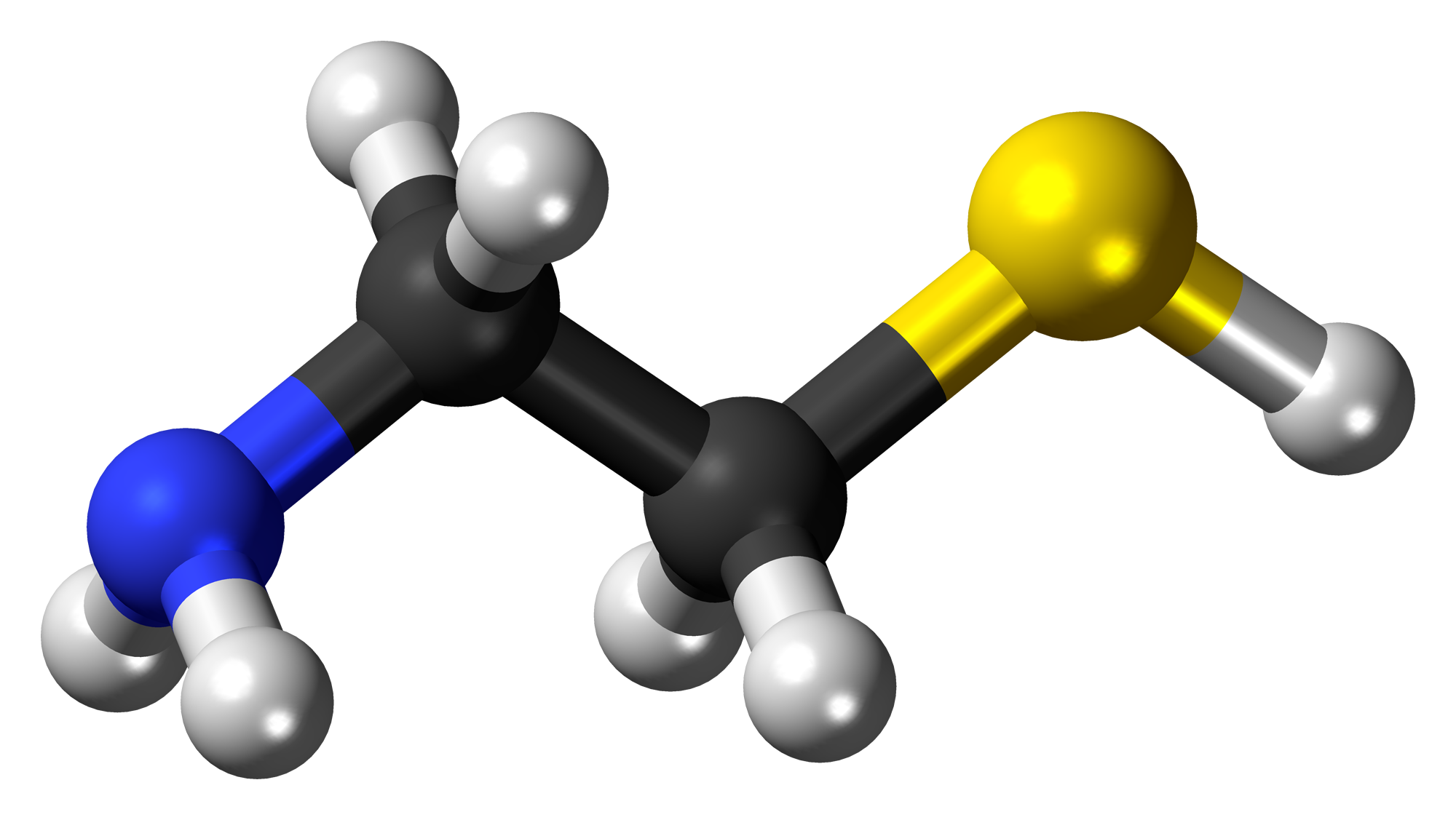 Ball-and-stick model of the cysteamine molecule, the decarboxylation product of cysteine. Colour code: Carbon, C: black Hydrogen, H: white Nitrogen, N: blue Sulfur, S: yellow